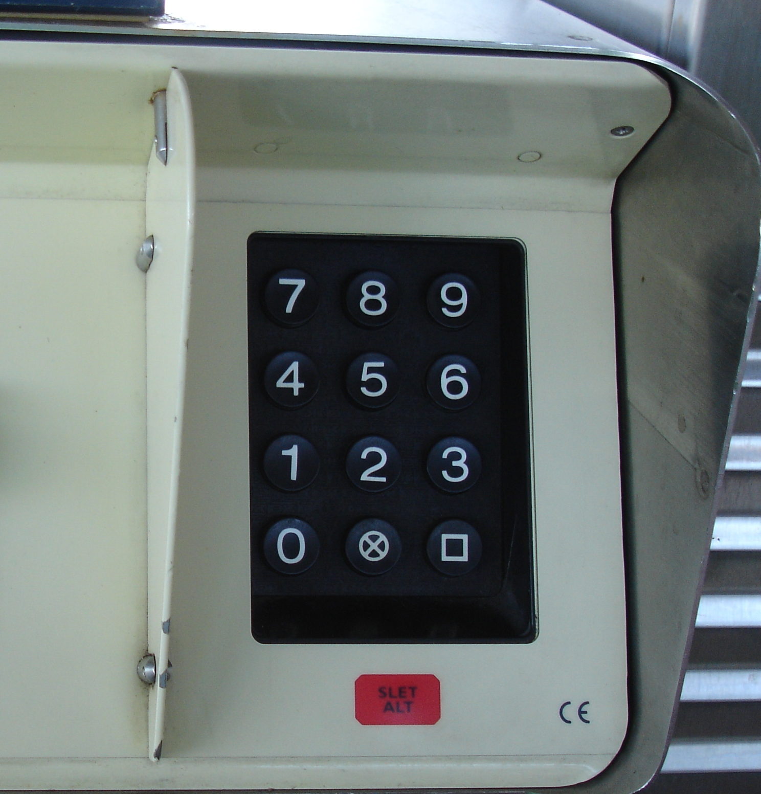 Keypad in Denmark. The layout is inverted